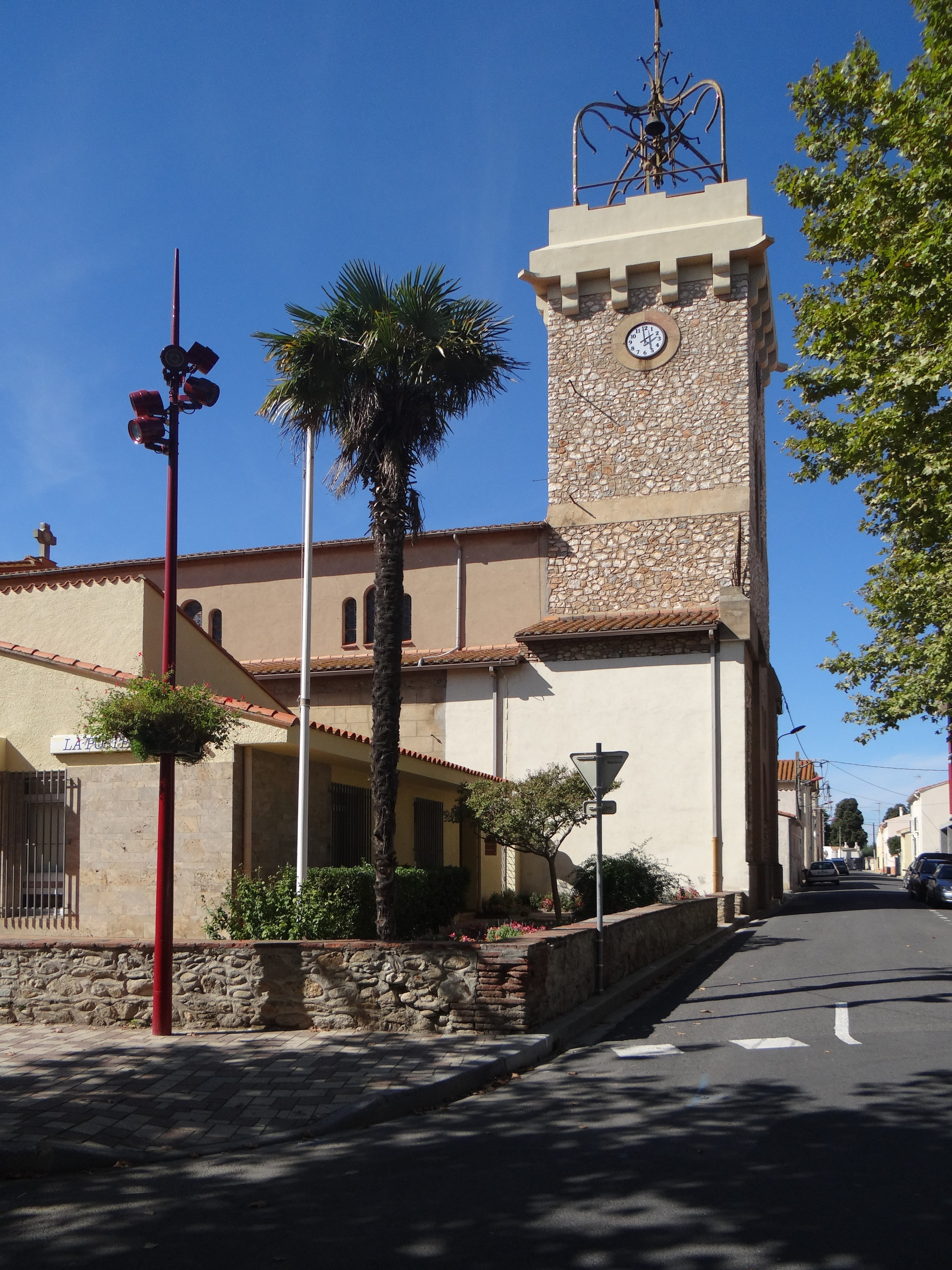 St. Peter's Church Théza, Pyrenees-Orientales, France.